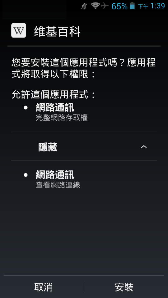 Wikipedia Mobile application package file on Android (Chinese).